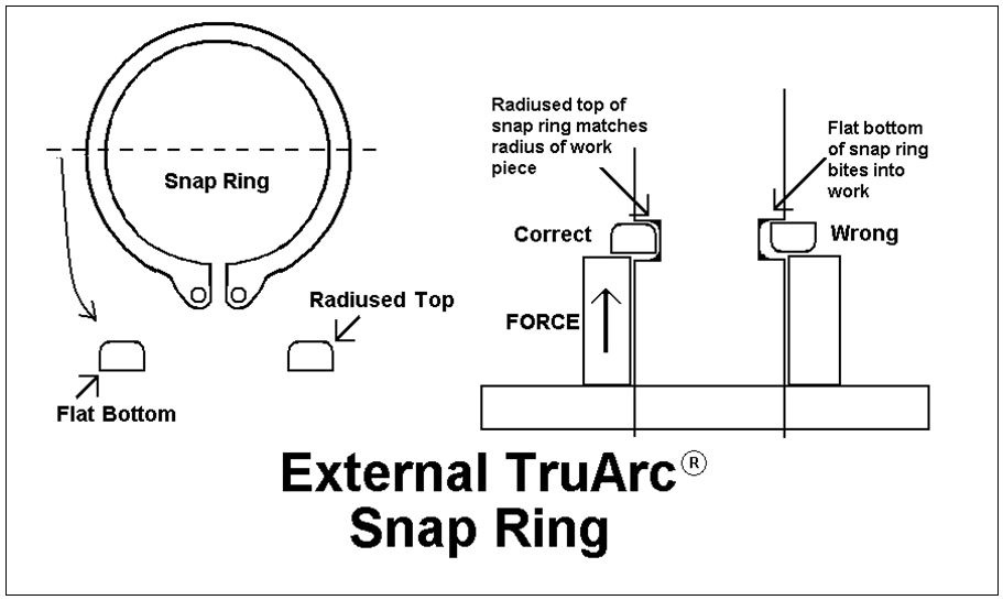 How to properly position an external Tru-Arc Snap ring in its groove.